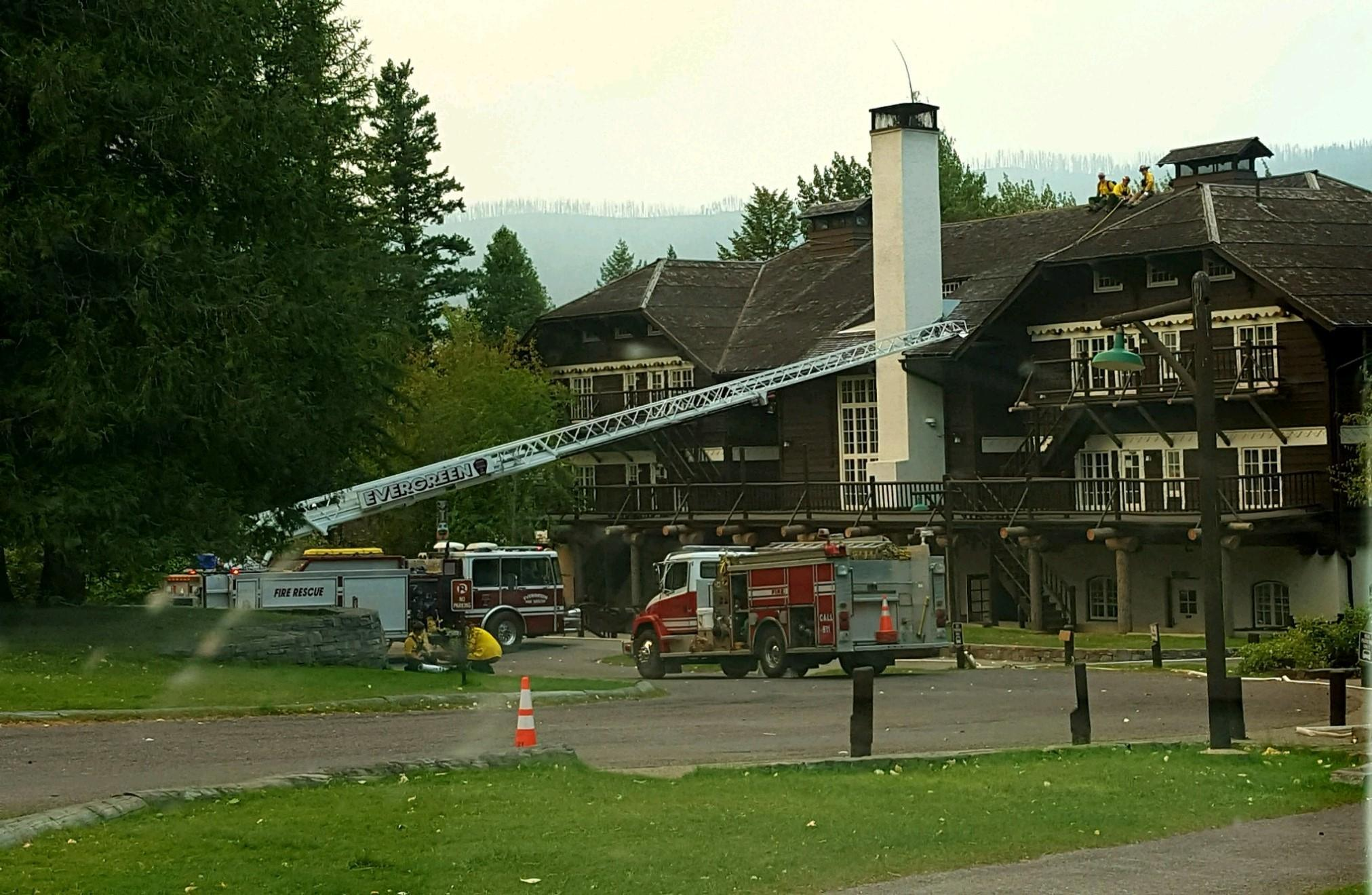 Structural firefighting engines at Lake McDonald Lodge for the Sprague Fire